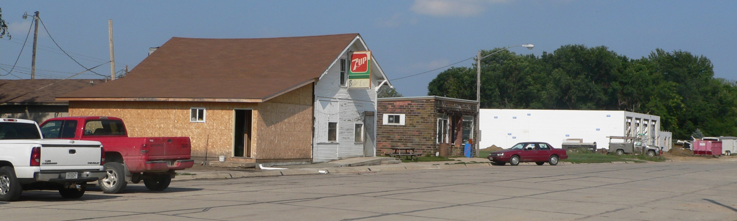 Downtown Martinsburg, Nebraska: north side of Main Street, looking northeast from about 3rd Street.